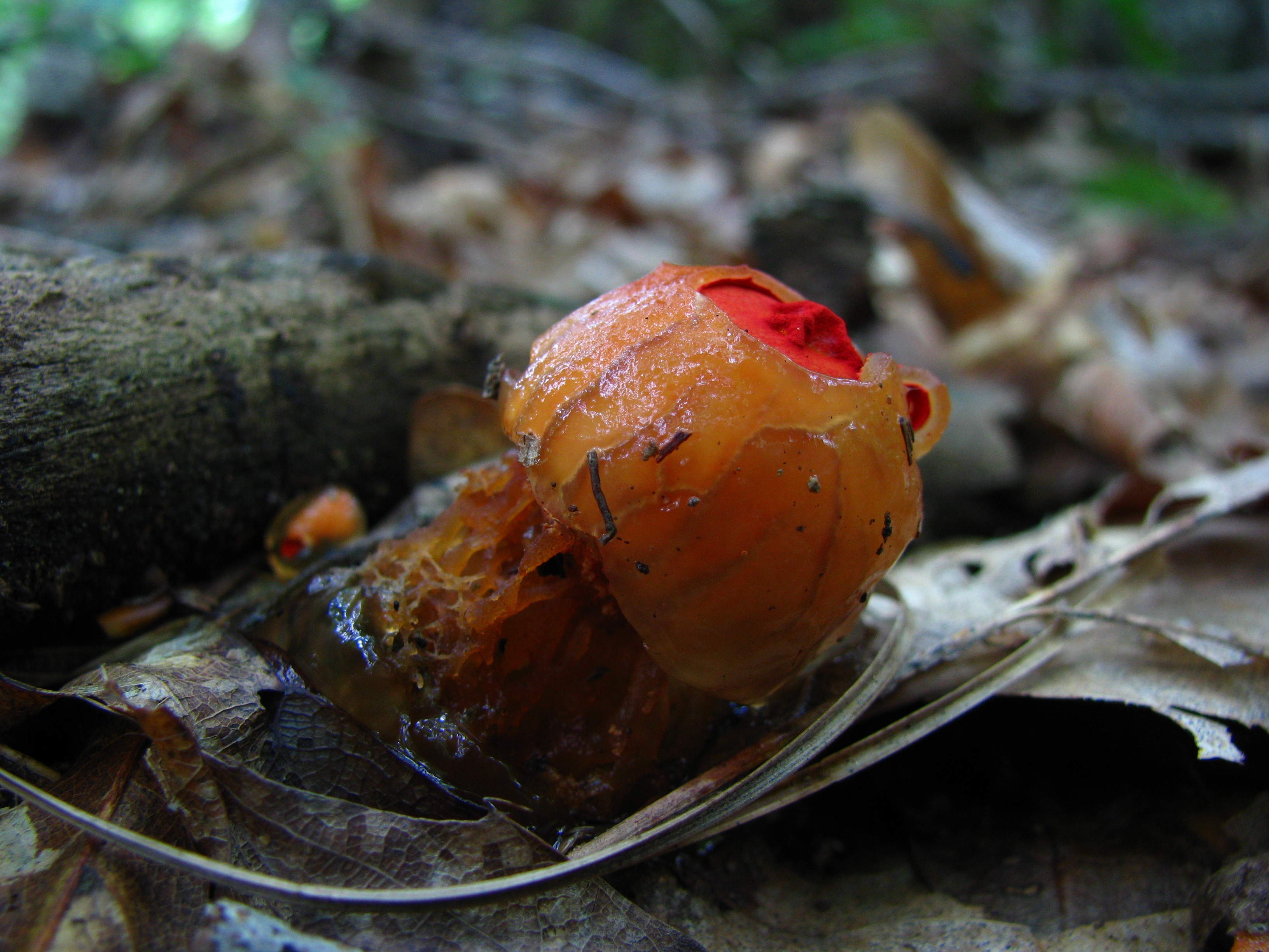 The gasteroid mushroom Calostoma cinnabarina (family Sclerodermataceae)